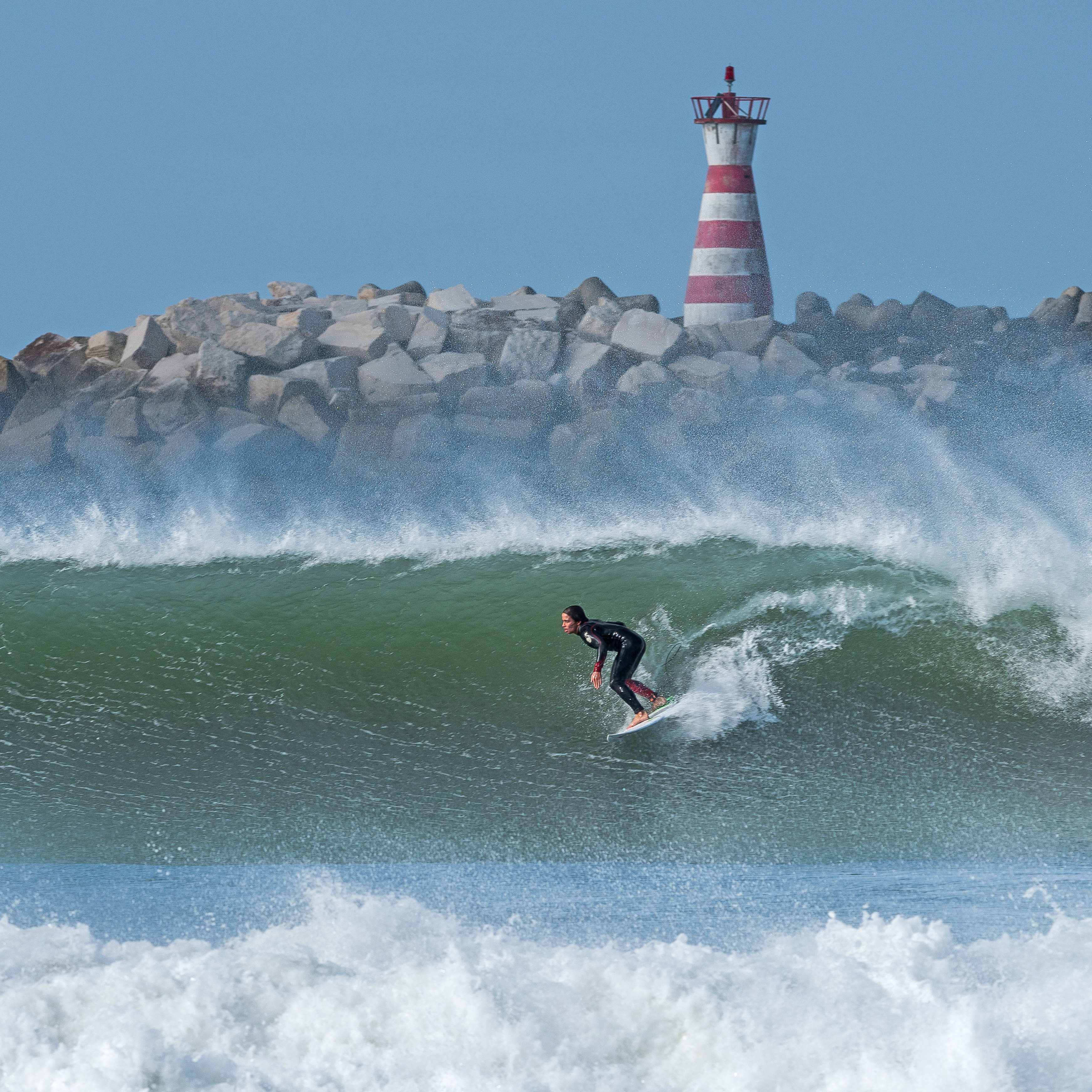 Peniche Portugal February 2015